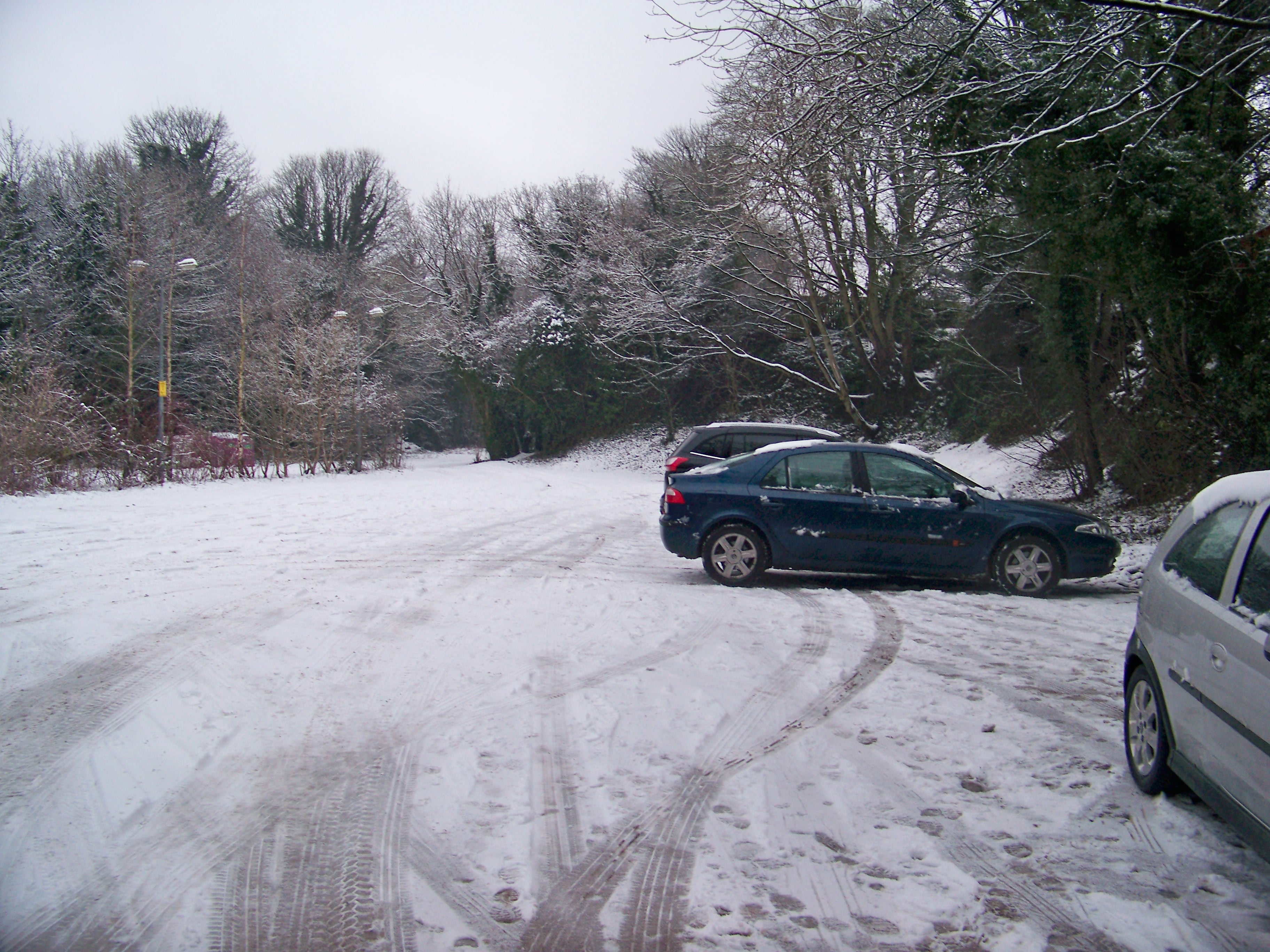 The former Wetherby railway station (Linton Road site) in Wetherby, West Yorkshire seen in the cold January snow. Taken on the afternoon of Monday the 21st January 2013.